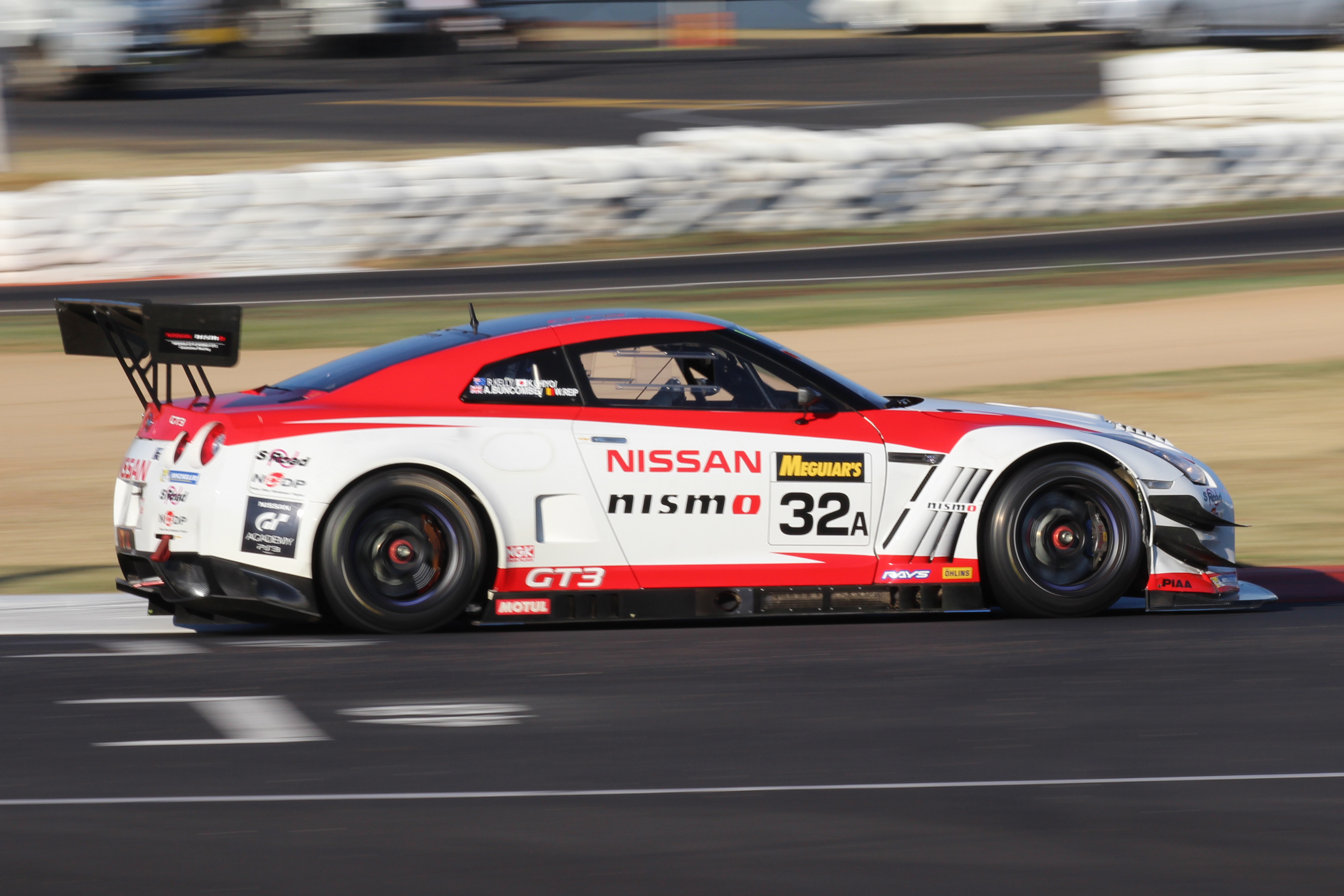 The Nissan GT-R Nismo GT3 of Alex Buncombe, Katsumasa Chiyo, Rick Kelly and Wolfgang Reip at the 2014 Liqui Moly Bathurst 12 Hour.